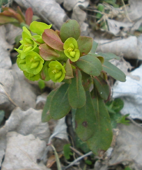 Wood spurge